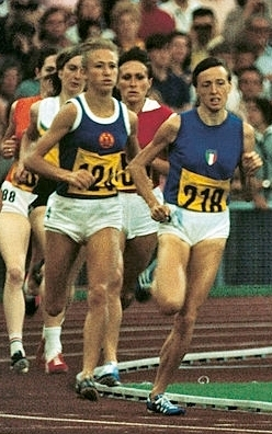 The 1500 meters final at the 1972 Olympics: Karin Krebs, Tamara Pangelova, Paola Pigni